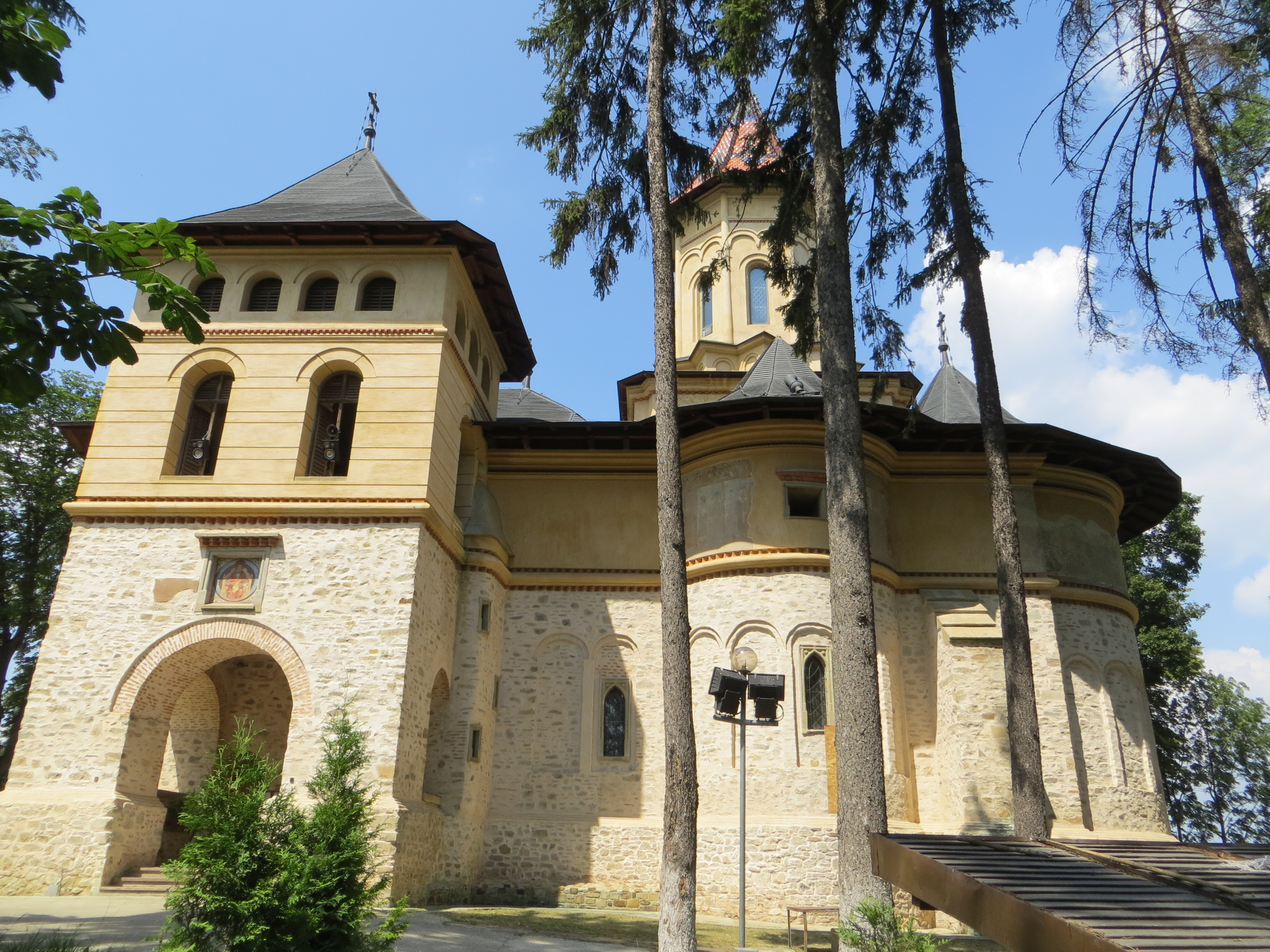 Mirăuţi Church in Suceava.